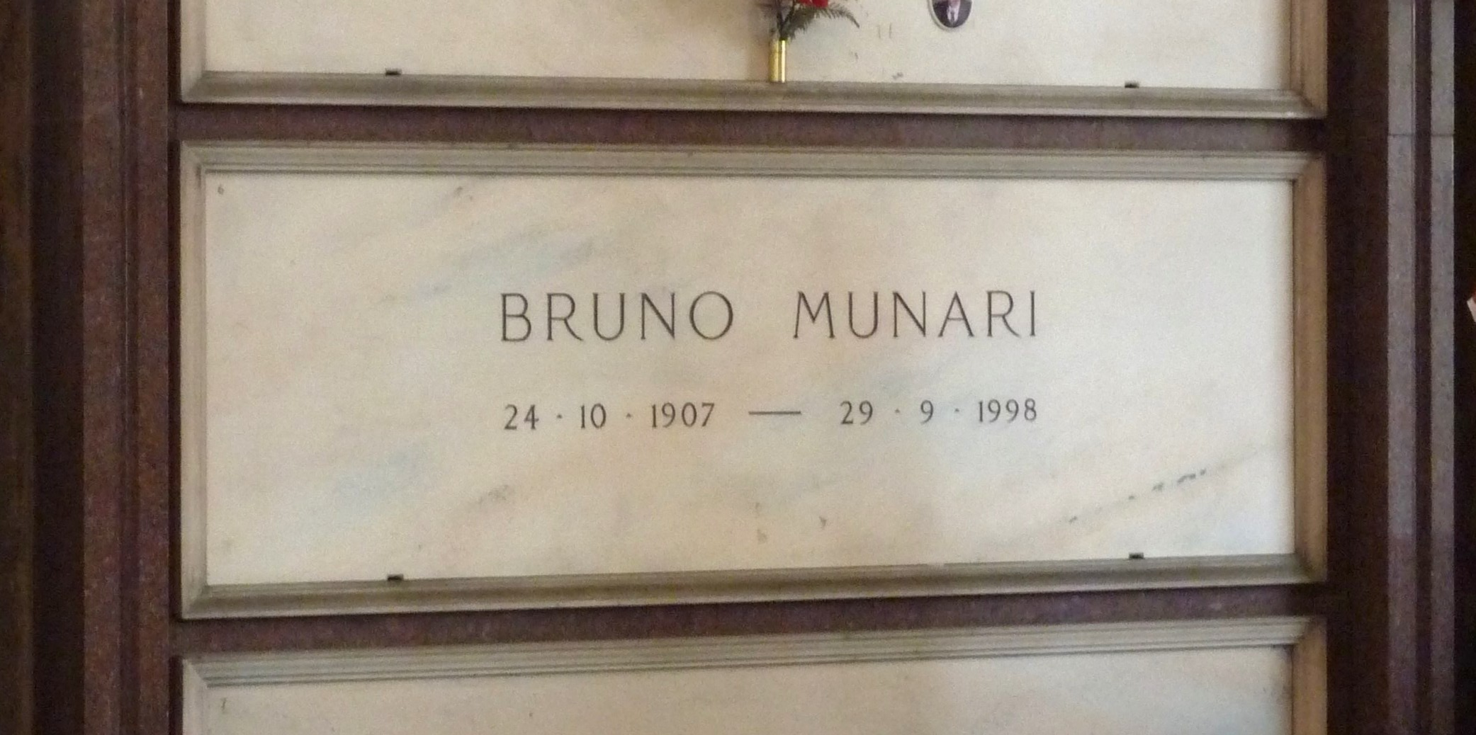 The grave of Italian artist Bruno Munari at the Cimitero Monumentale in Milan, Italy.